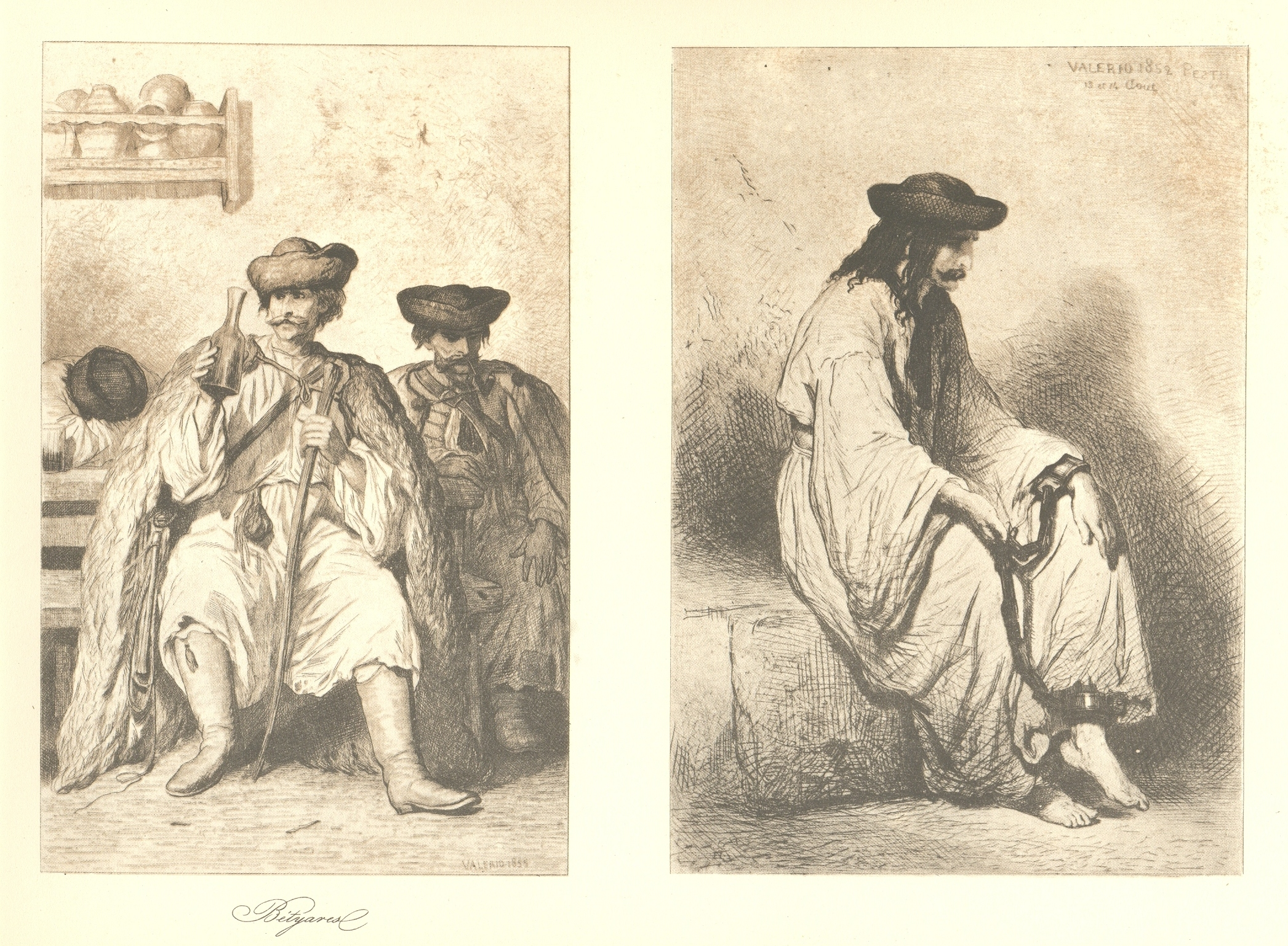 Betyárs (Hungarian muggers and rougers in 19th century) in a tavern and in prison, Hungary